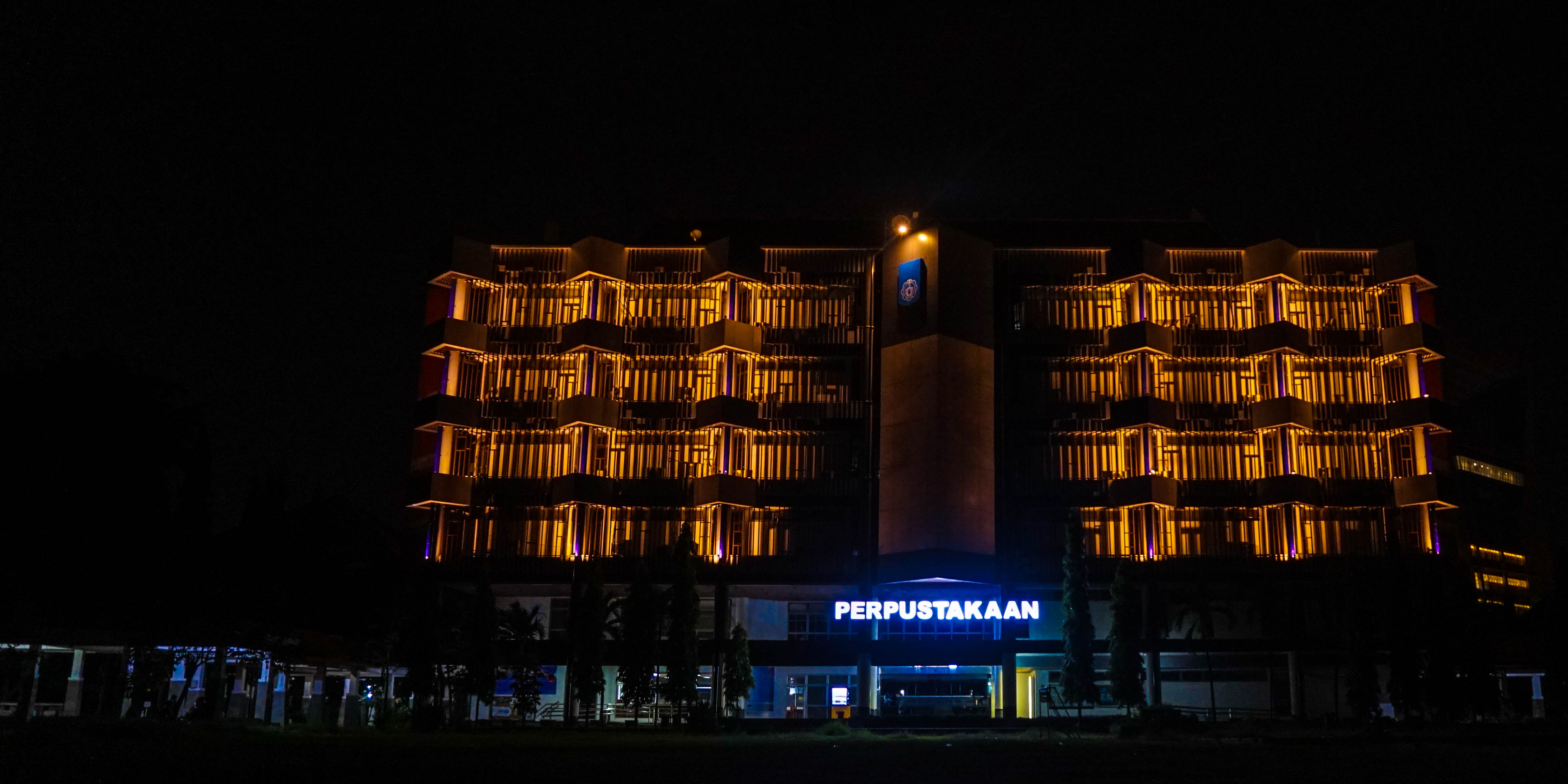 Campus that never sleeps